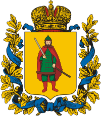 Ryazan gubernia (Russian empire), coat of arms